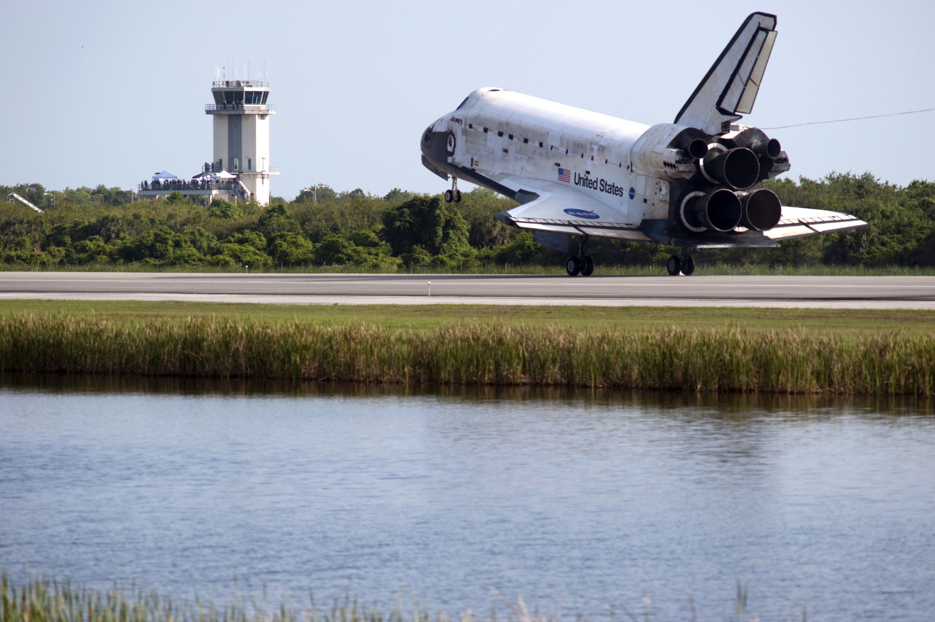 CAPE CANAVERAL, Fla. - Space shuttle Discovery lands on Runway 33 at the Shuttle Landing Facility at NASA's Kennedy Space Center in Florida at 9:08 a.m. EDT, completing the 15-day STS-131 mission to the International Space Station. The air traffic control tower can be seen in the background. Main gear touchdown was at 9:08:35 a.m. EDT followed by nose gear touchdown at 9:08:47 a.m. and wheelstop at 9:09:33 a.m. Aboard are Commander Alan Poindexter; Pilot James P. Dutton Jr.; and Mission Specialists Rick Mastracchio, Clayton Anderson, Dorothy Metcalf-Lindenburger, Stephanie Wilson and Naoko Yamazaki of the Japan Aerospace Exploration Agency. The seven-member STS-131 crew carried the multi-purpose logistics module Leonardo, filled with supplies, a new crew sleeping quarters and science racks that were transferred to the International Space Station's laboratories. The crew also switched out a gyroscope on the station’s truss, installed a spare ammonia storage tank and retrieved a Japanese experiment from the station’s exterior. STS-131 is the 33rd shuttle mission to the station and the 131st shuttle mission overall. For information on the STS-131 mission and crew, visit